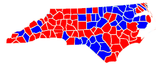 County results map of 2004 NC senate election